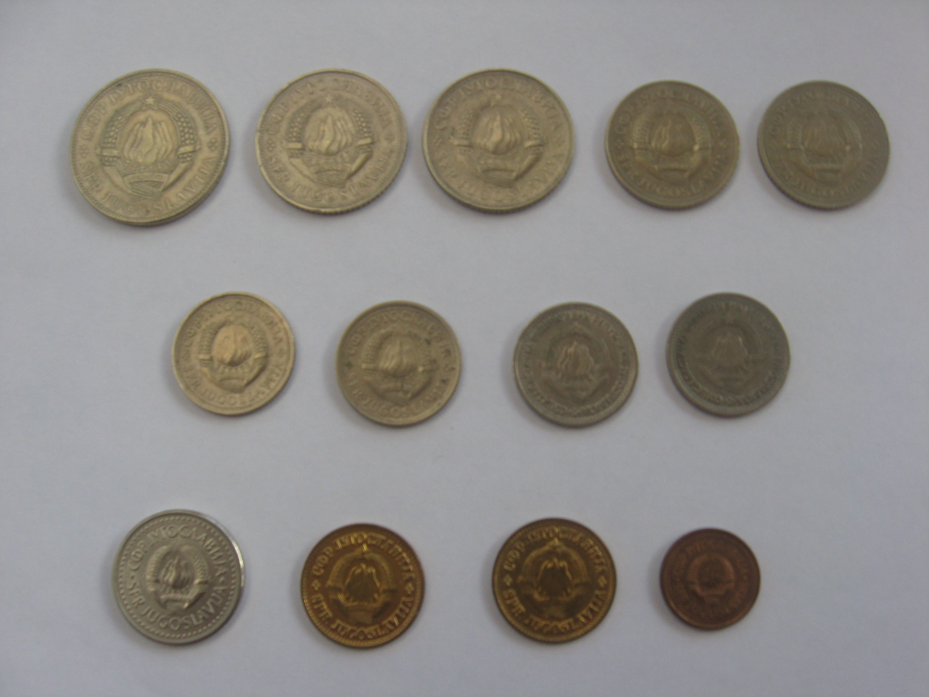 SFR Yugoslavia Dinar coins.